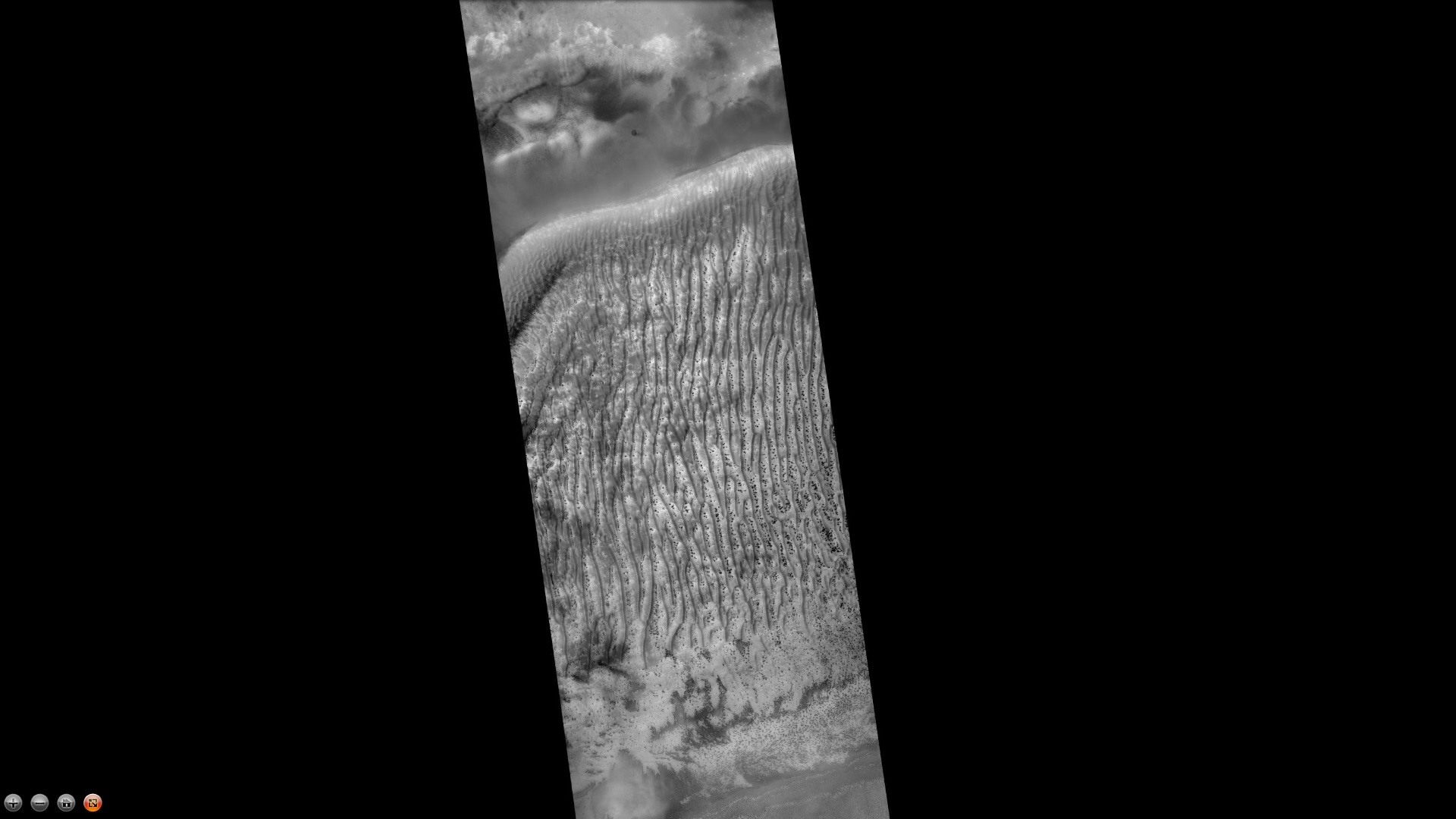 Richardson Crater Crater, as seen by CTX